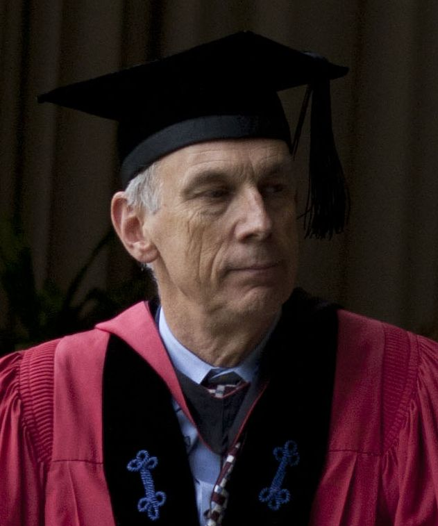 Political theorist Robert Keohane at the 2012 commencement ceremony of Shimer College, of which he is an alumnus and trustee.